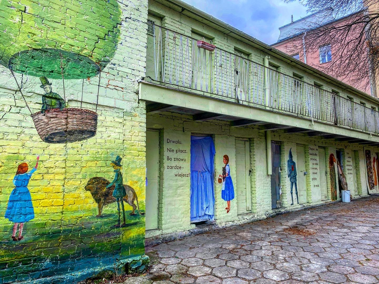 The Wizard of Oz